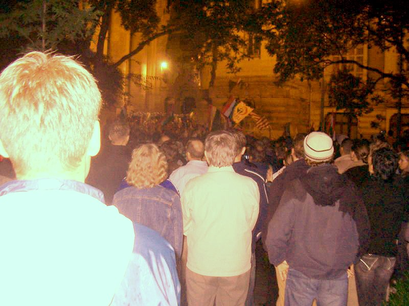 2006 anti-government protest, Szabadság square, Budapest, Hungary Peaceful crowd seing the gate of MTV-hall, full with policemen and furious demonstrators